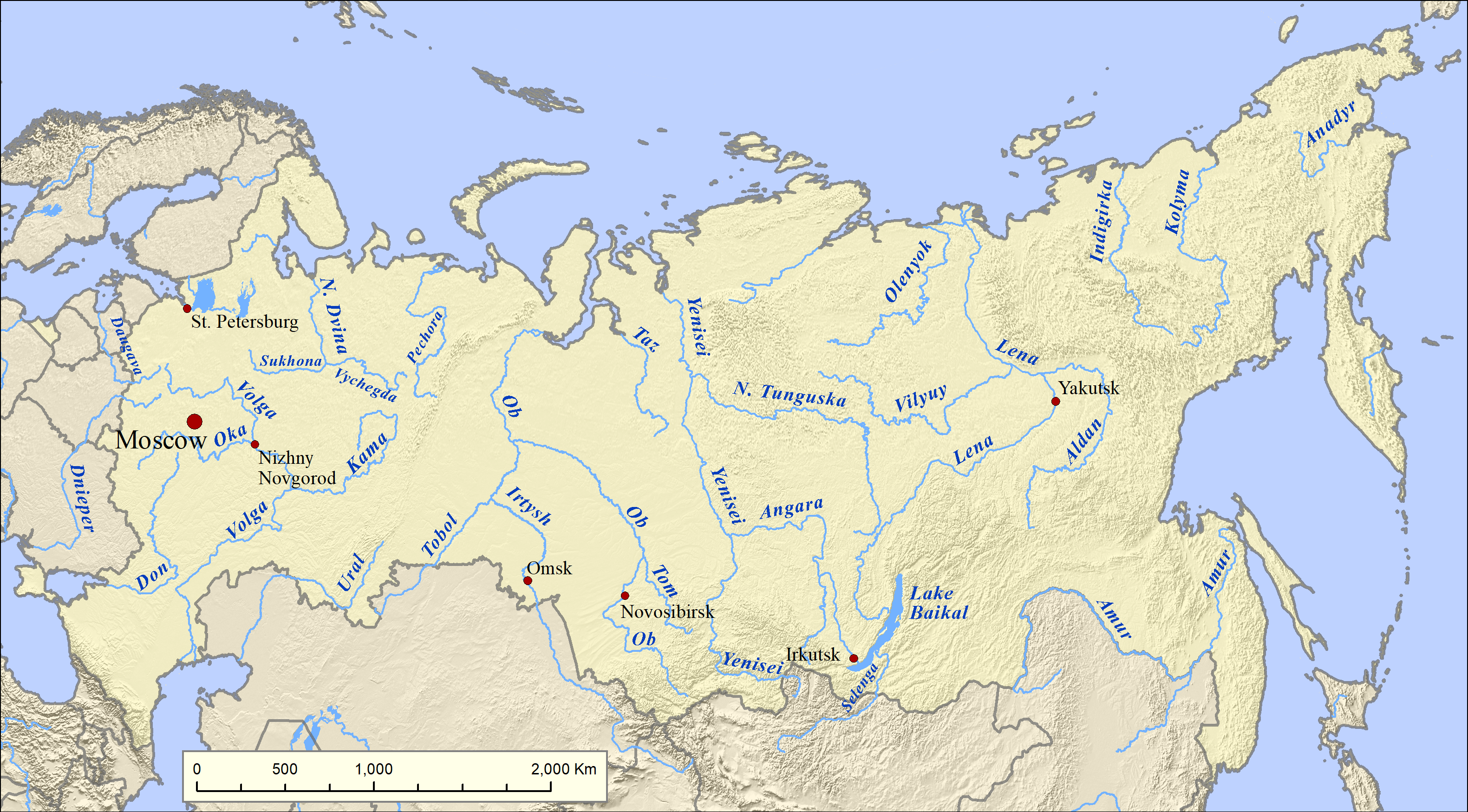 Map of the major rivers of Russia, data from the Natural Earth dataset at